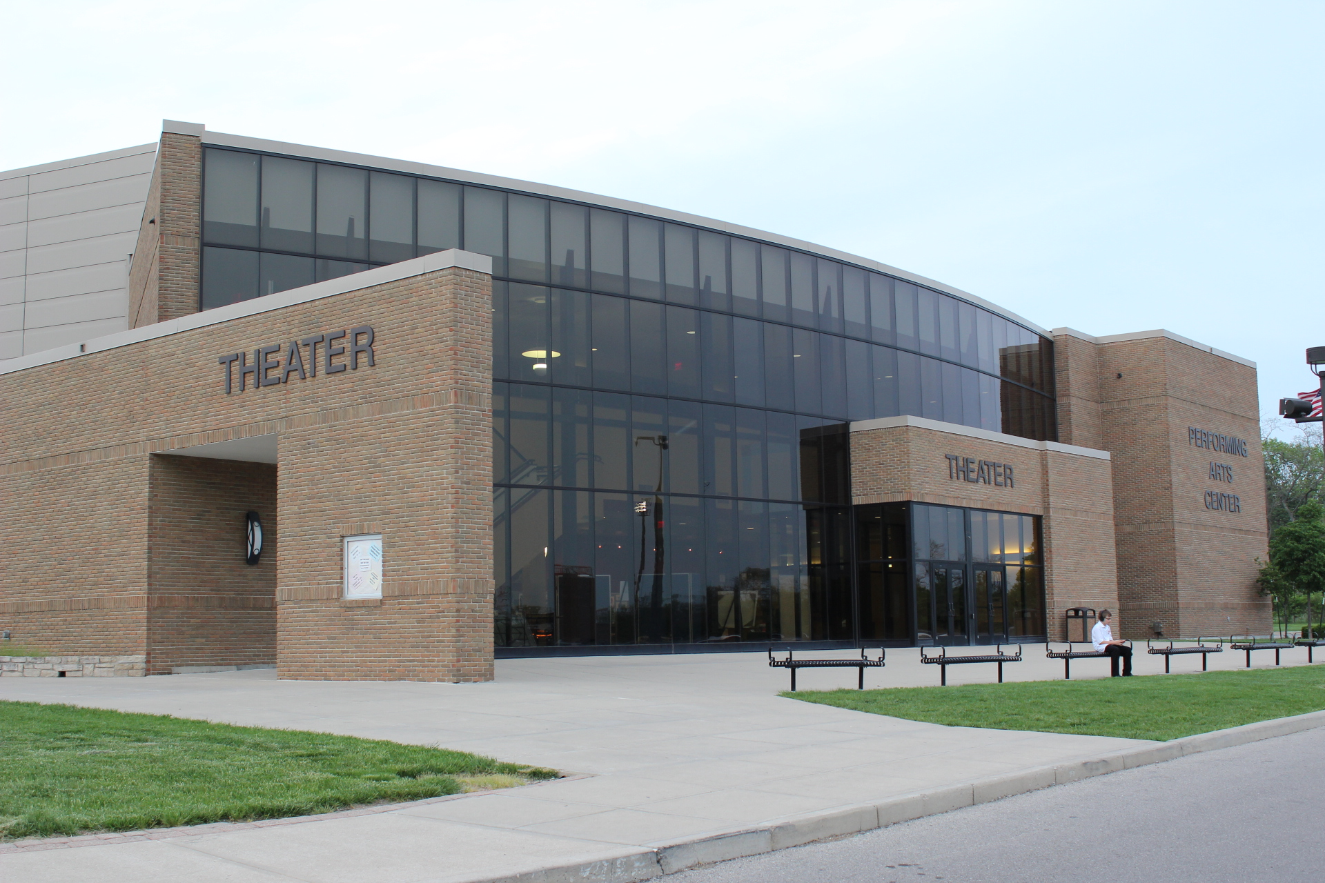 Exterior of the Centerville High School Performing Arts Center, taken May 9, 2014